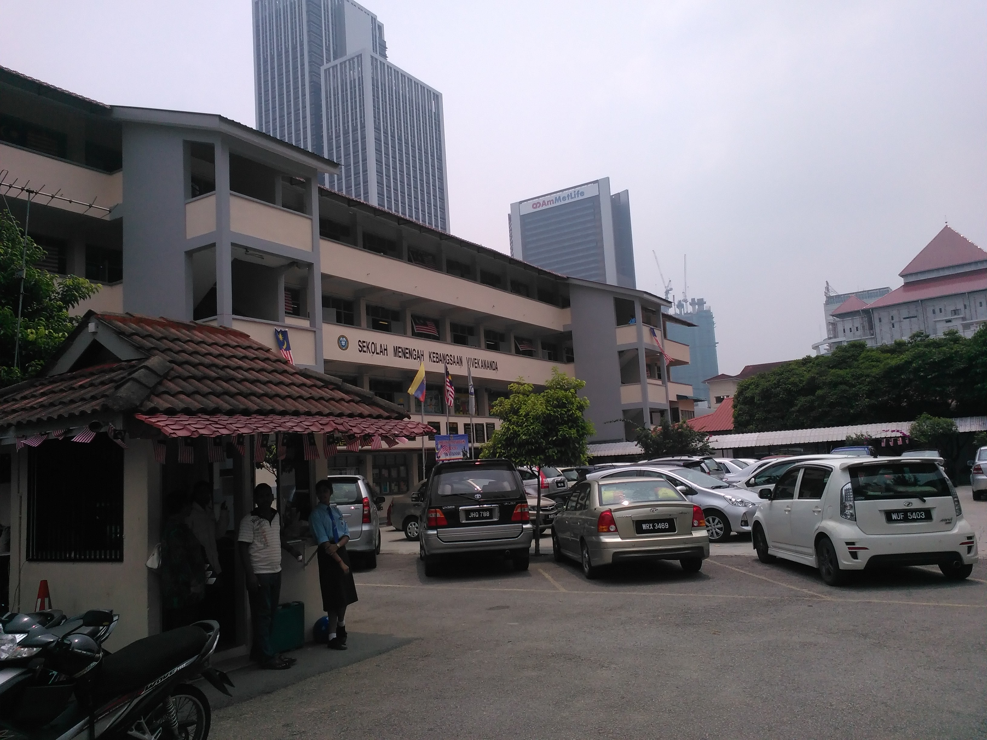 SMK Vivekananda, Brickfields - Jalan Rozario, Brickfields, 50470 Kuala Lumpur